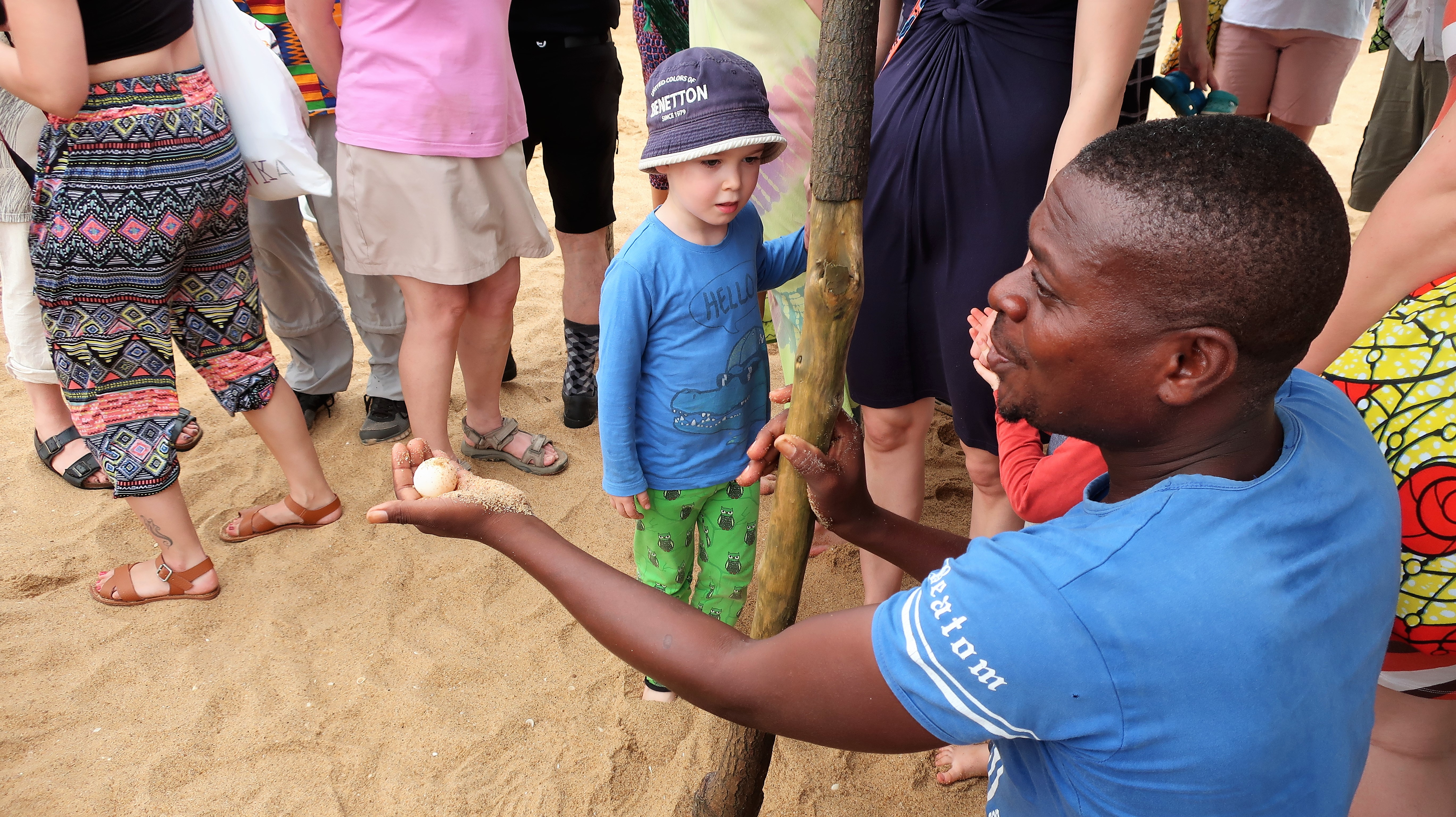 Villa Karoans at the Turtle Protection Station in Grand-Popo Benin in December 2017